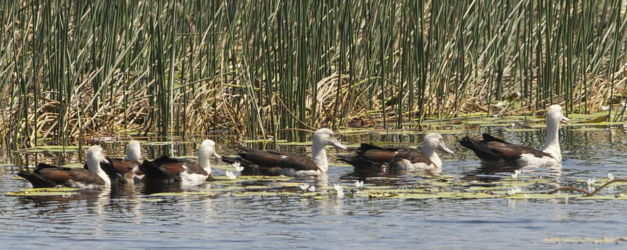 Radjah Shelduck Tadorna radjah Tadorna radjah rufitergum Northern Territory, Australia August 2010 690V0003a